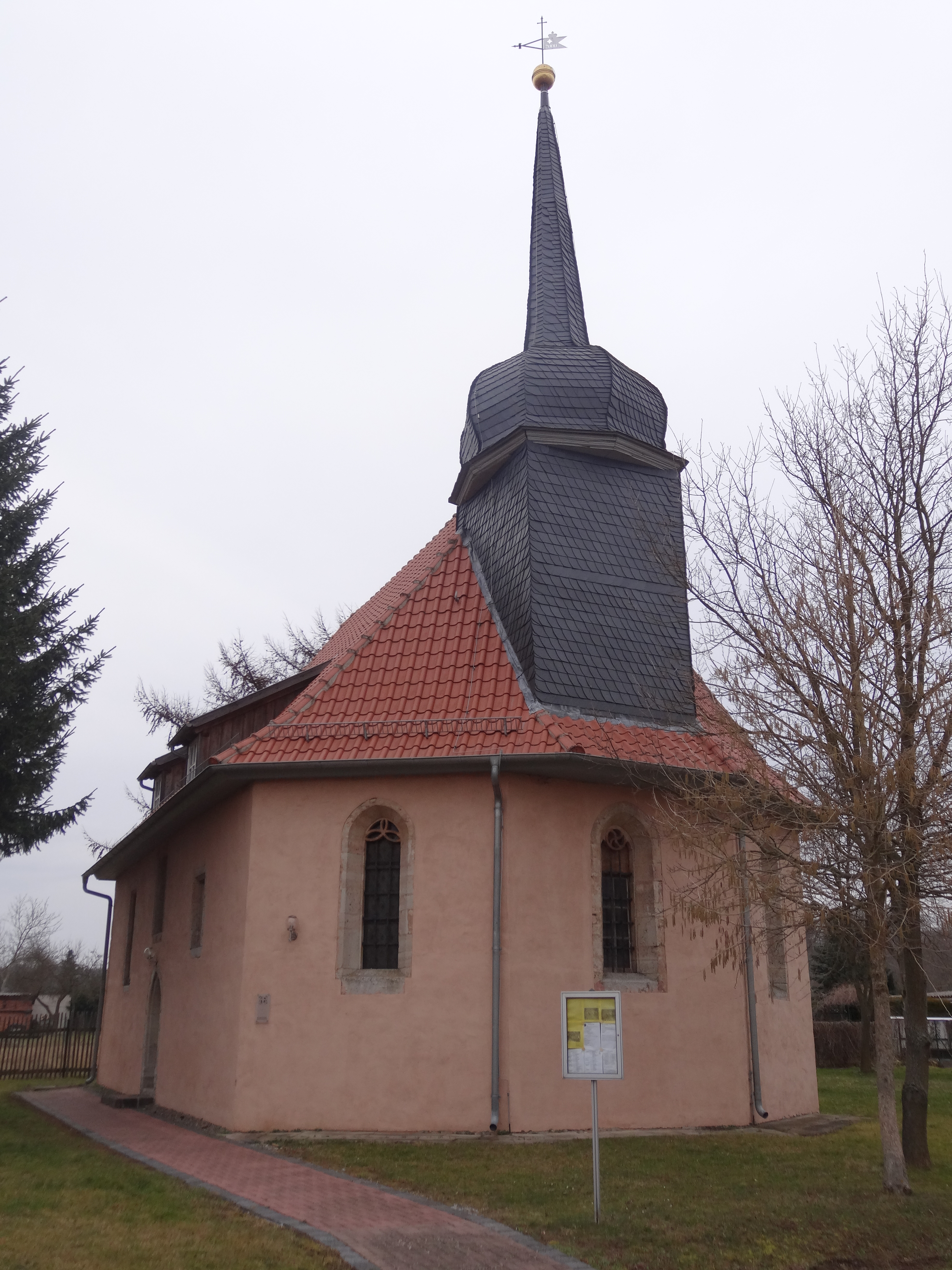 Churches in Zaunröden, Thuringia, Germany